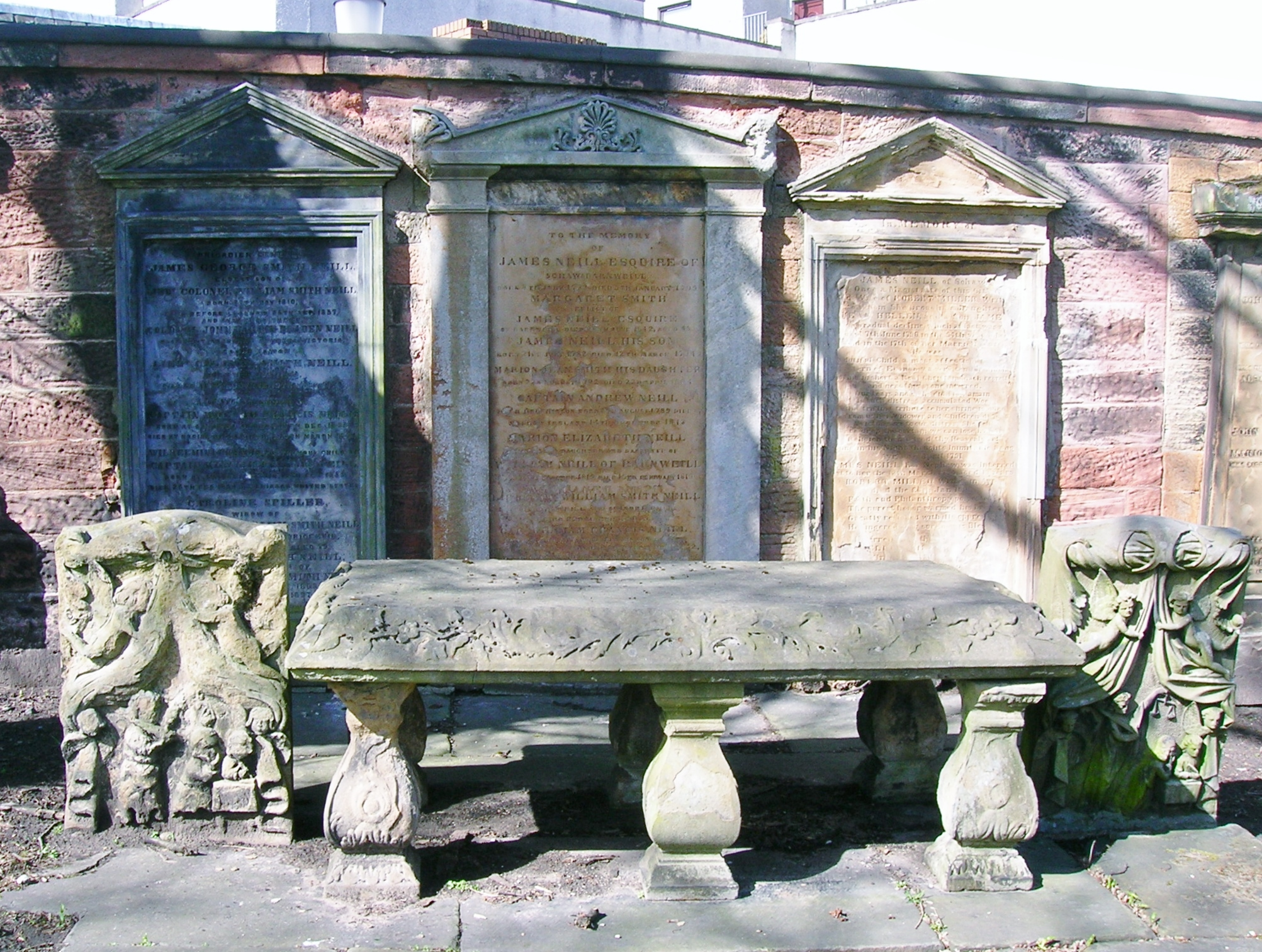 Gravestones of the Neills of Barnweill and Swindrigemuir at Ayr Auld Kirk, South Ayrshire, Scotland